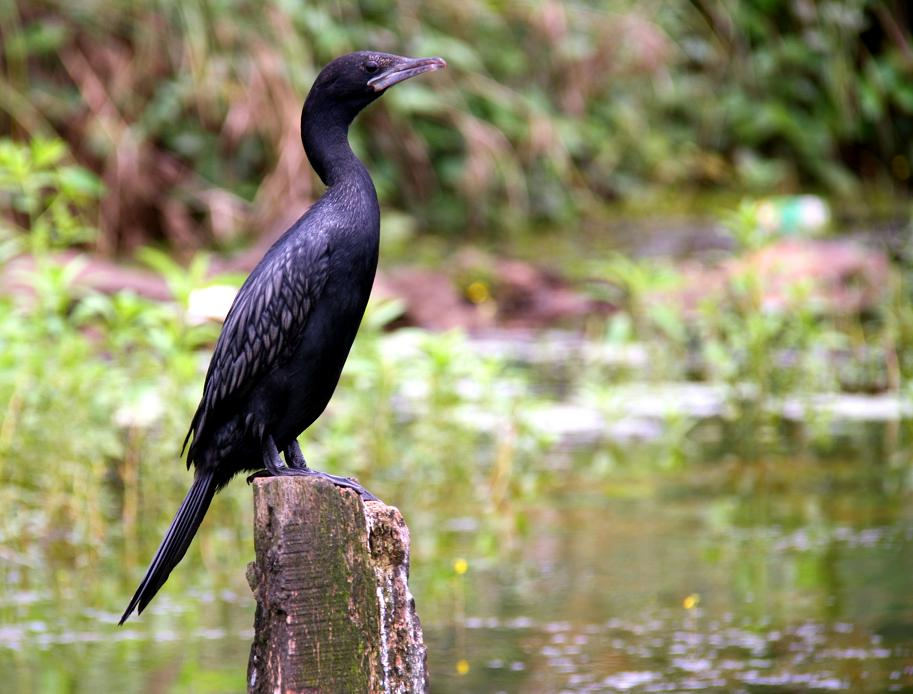 Great Cormorant Phalacrocorax carbo